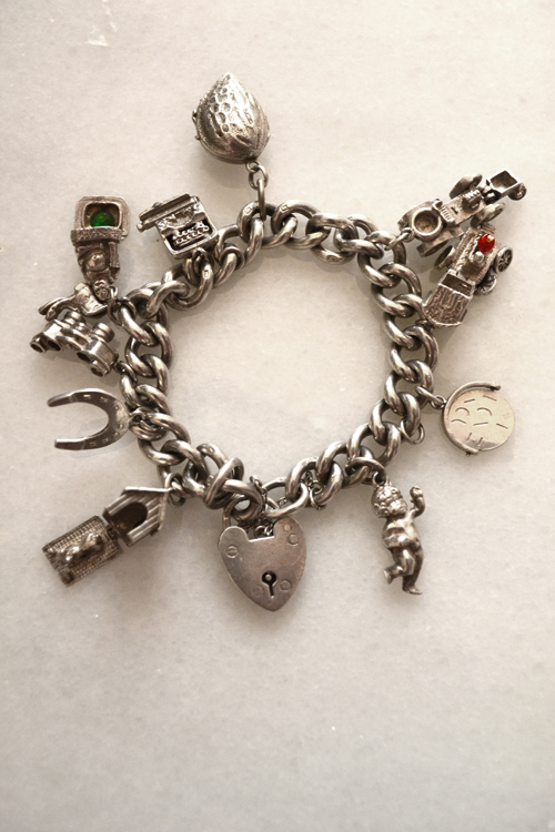 A beautiful vintage jewellery uk silver charm bracelet